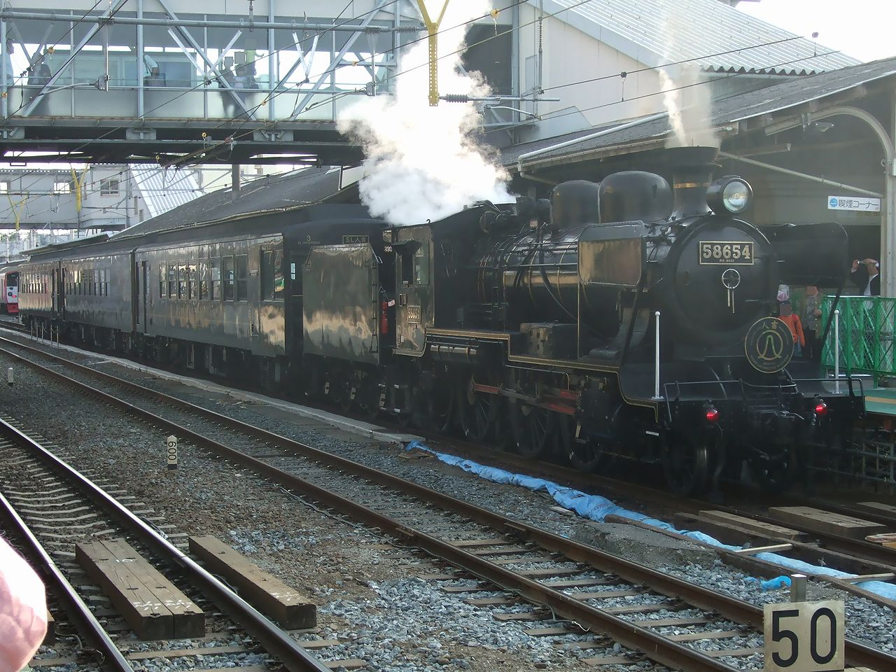 JR Kyushu train “SL Hitoyoshi” Location:at Kumamoto Station, Kumamoto, Japan